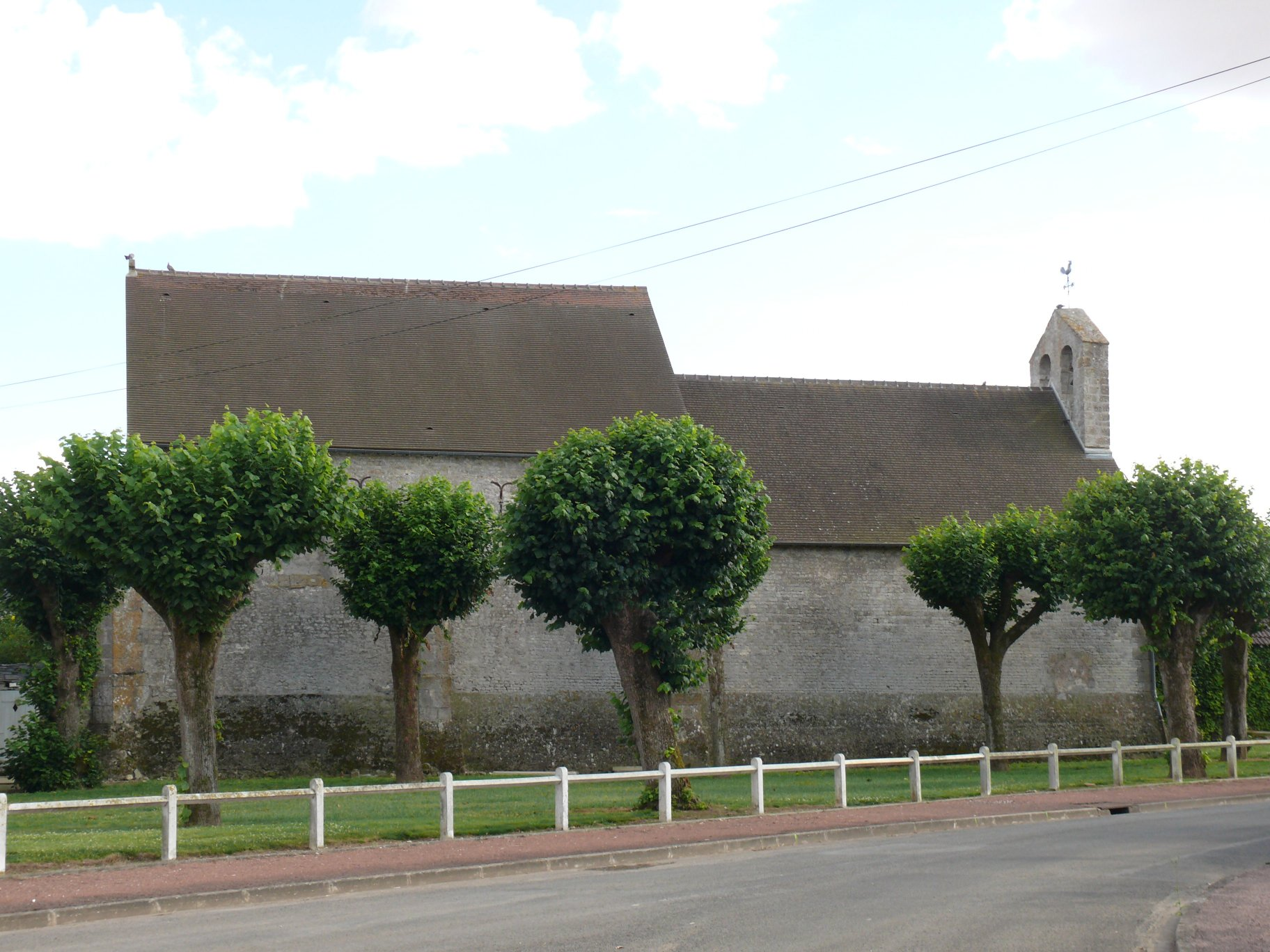 Saint-Peter's church of Intville-la-Guétard (Loiret, Centre-Val de Loire, France).